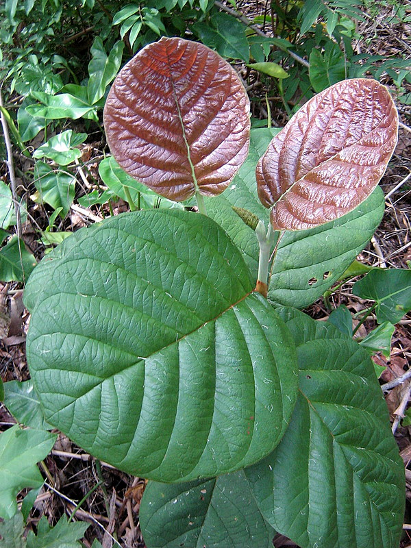 Juvenile form of leaves, up to 10 times larger then leaves on mature trees.